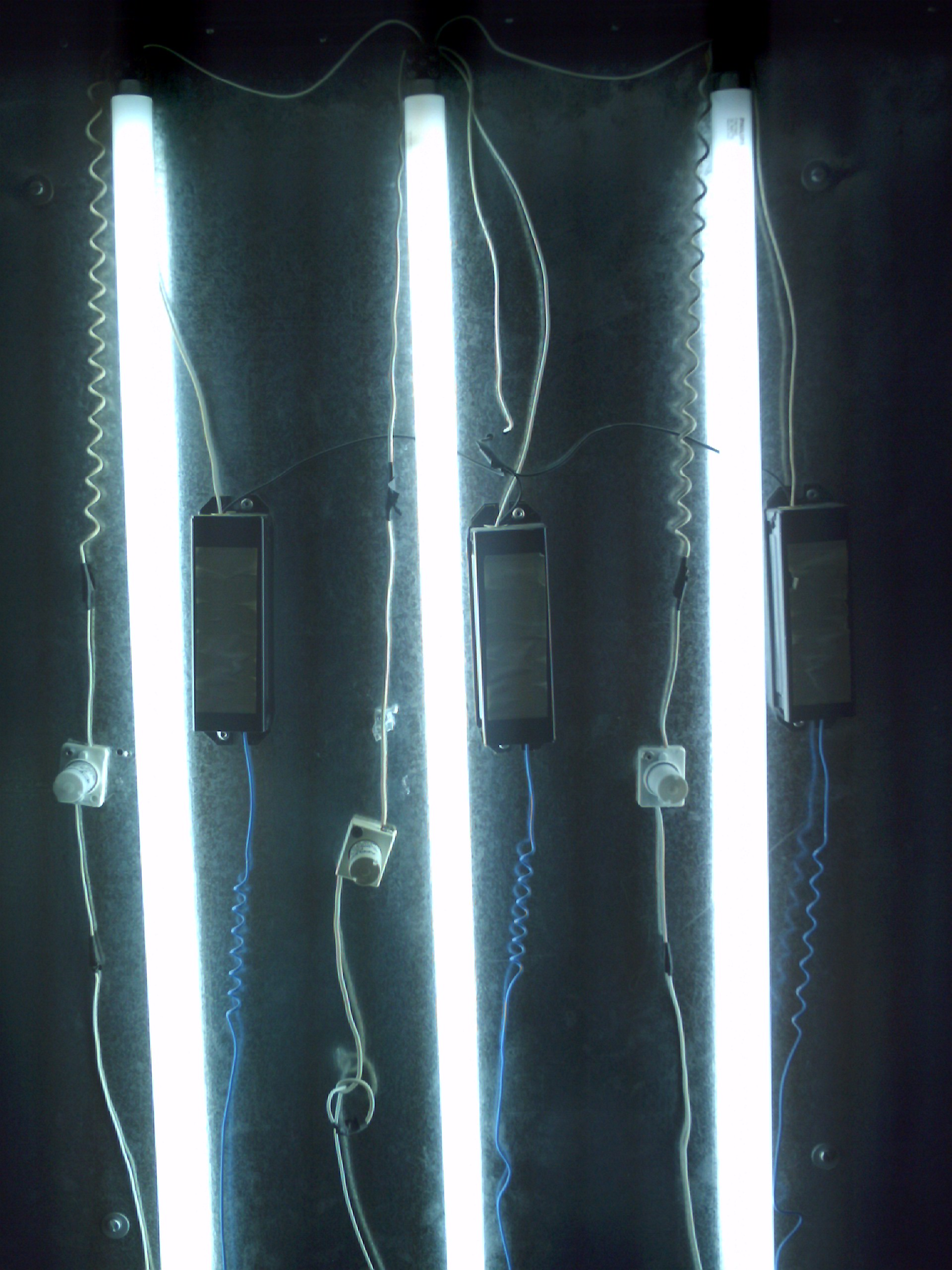 Fluorescent light bulbs